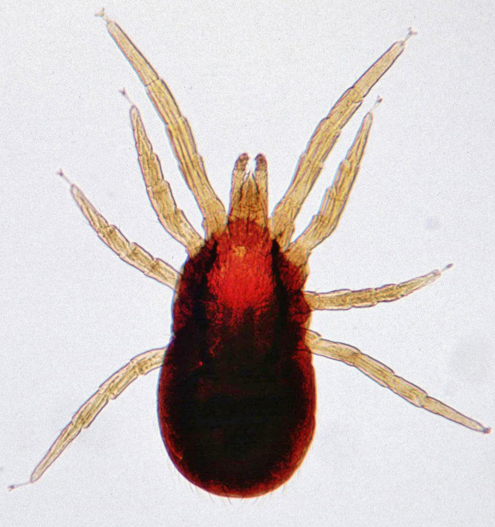 Bird mite, Dermanyssus gallinae, a common pest of poultry.